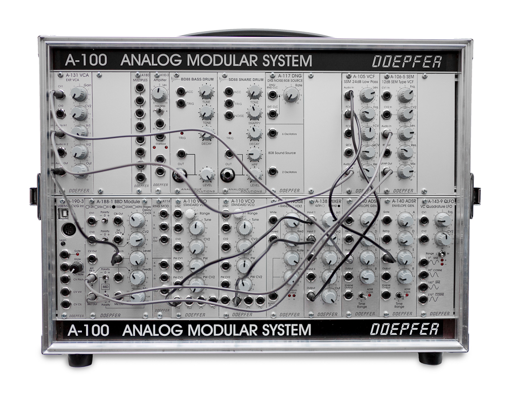 A Doepfer A-100 modular synthesizer (although two of the modules are by Analogue Solutions, the rest are all by Doepfer), set against a plain white background.